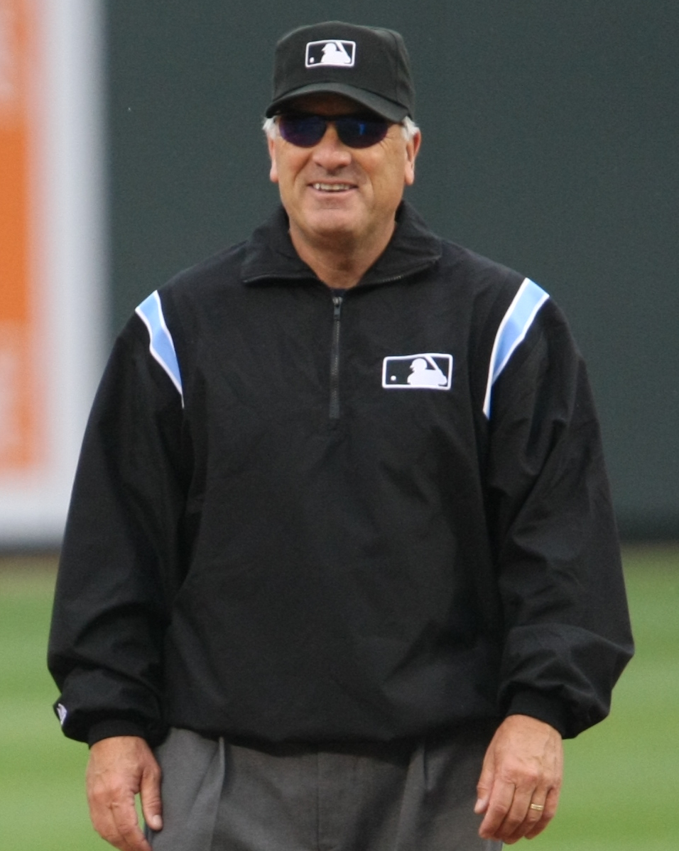 MLB umpire Ed Montague - April 20, 2008.